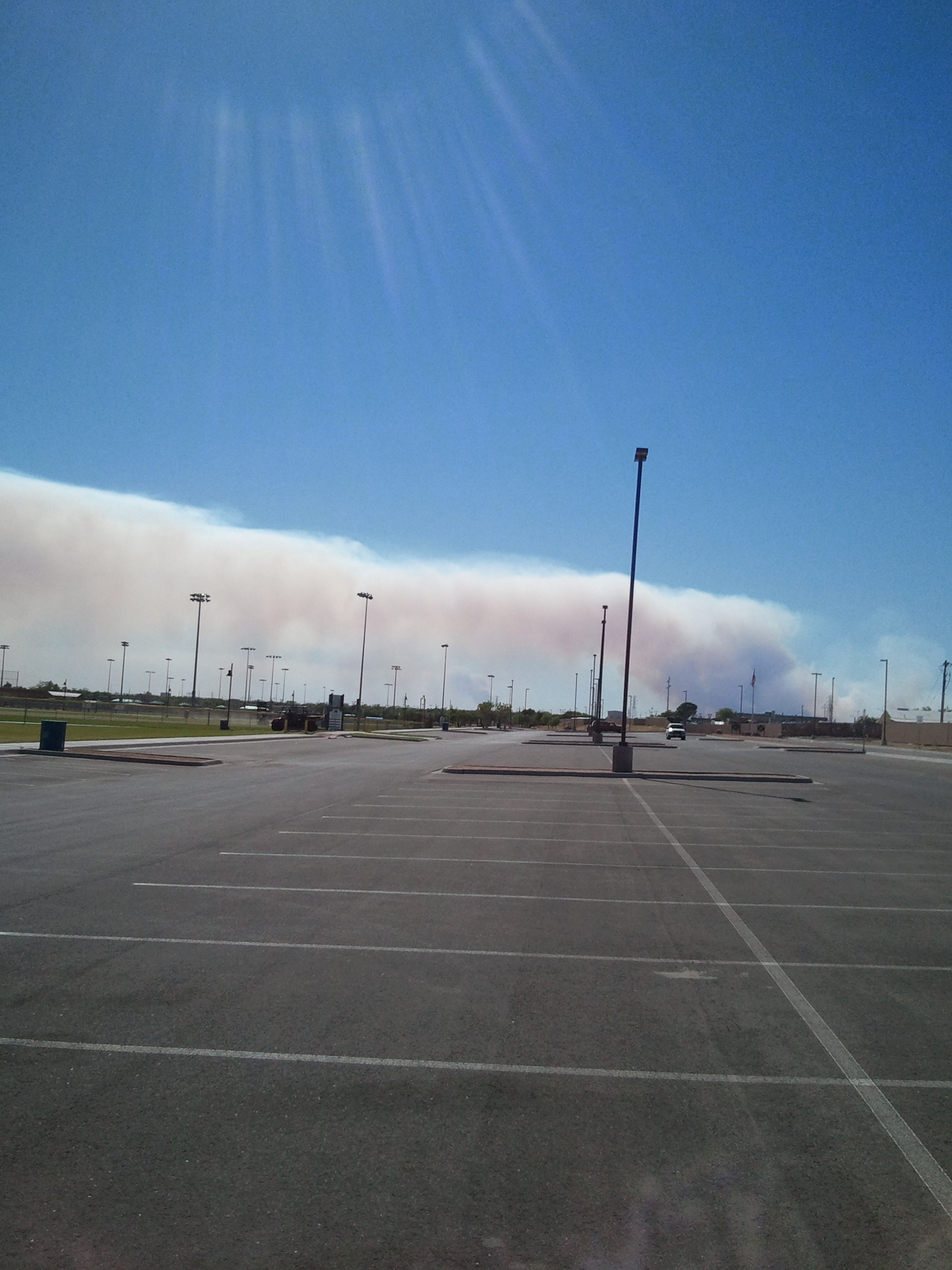 Smoke from the Encino#2 wildfire near San Angelo, TX. Taken from the Texas Bank Sports Complex.